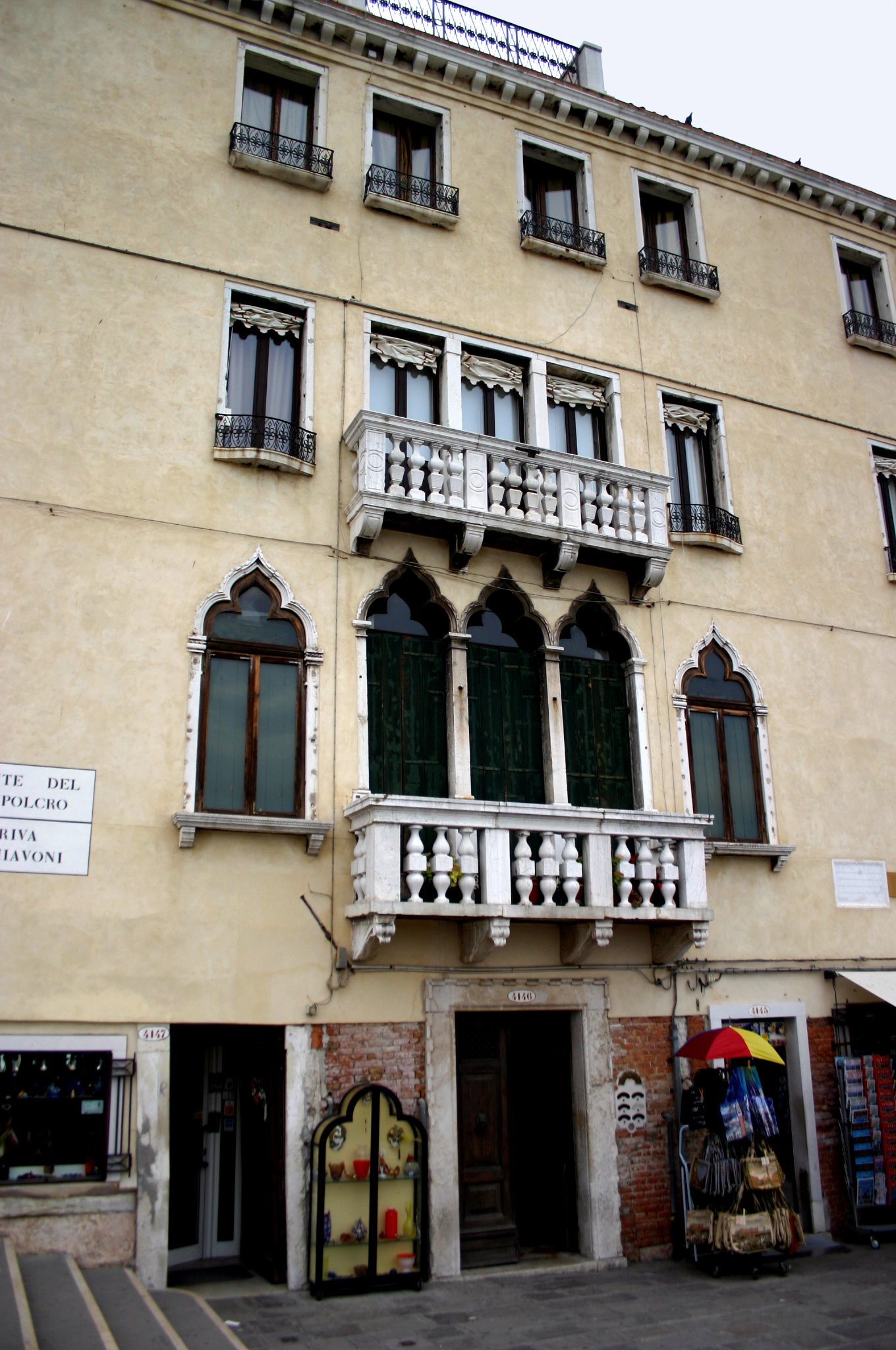 The building standing in the place where once stood Francesco Petrarca's home in Venice. Picture by Giovanni Dall'Orto, August 8, 2007. La casa / The building. La casa / The building. Lapide / Plaque.